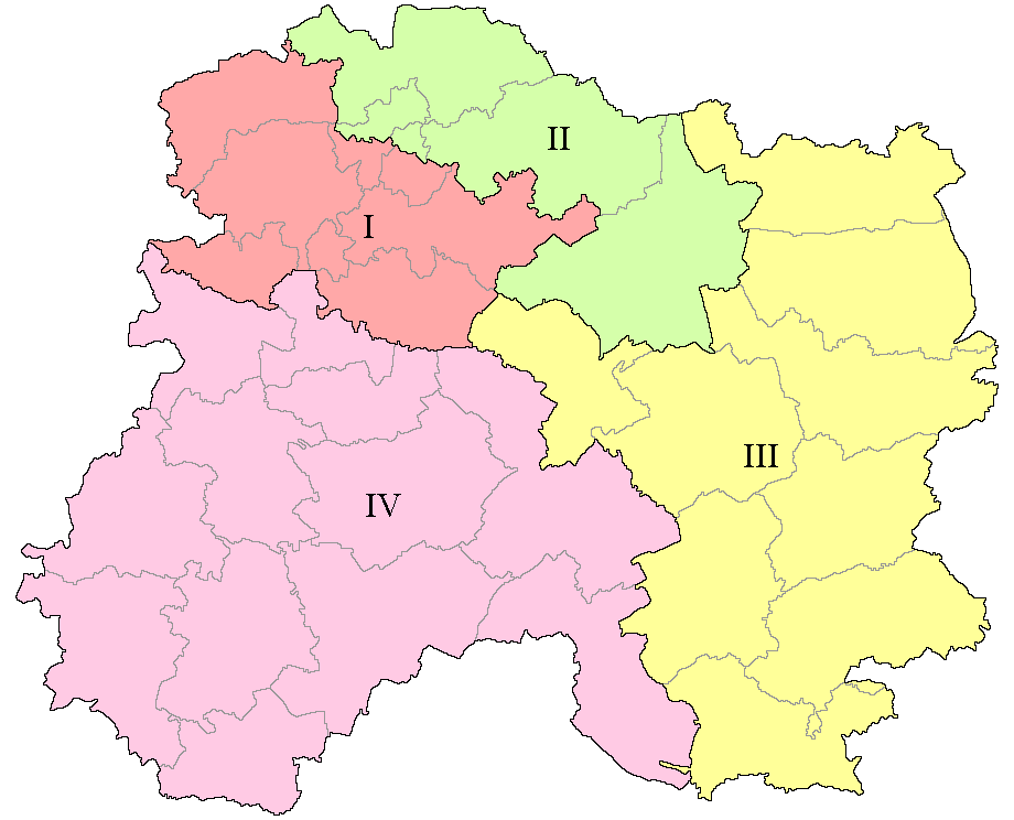 Map of Marne's constituencies (1958-1986)